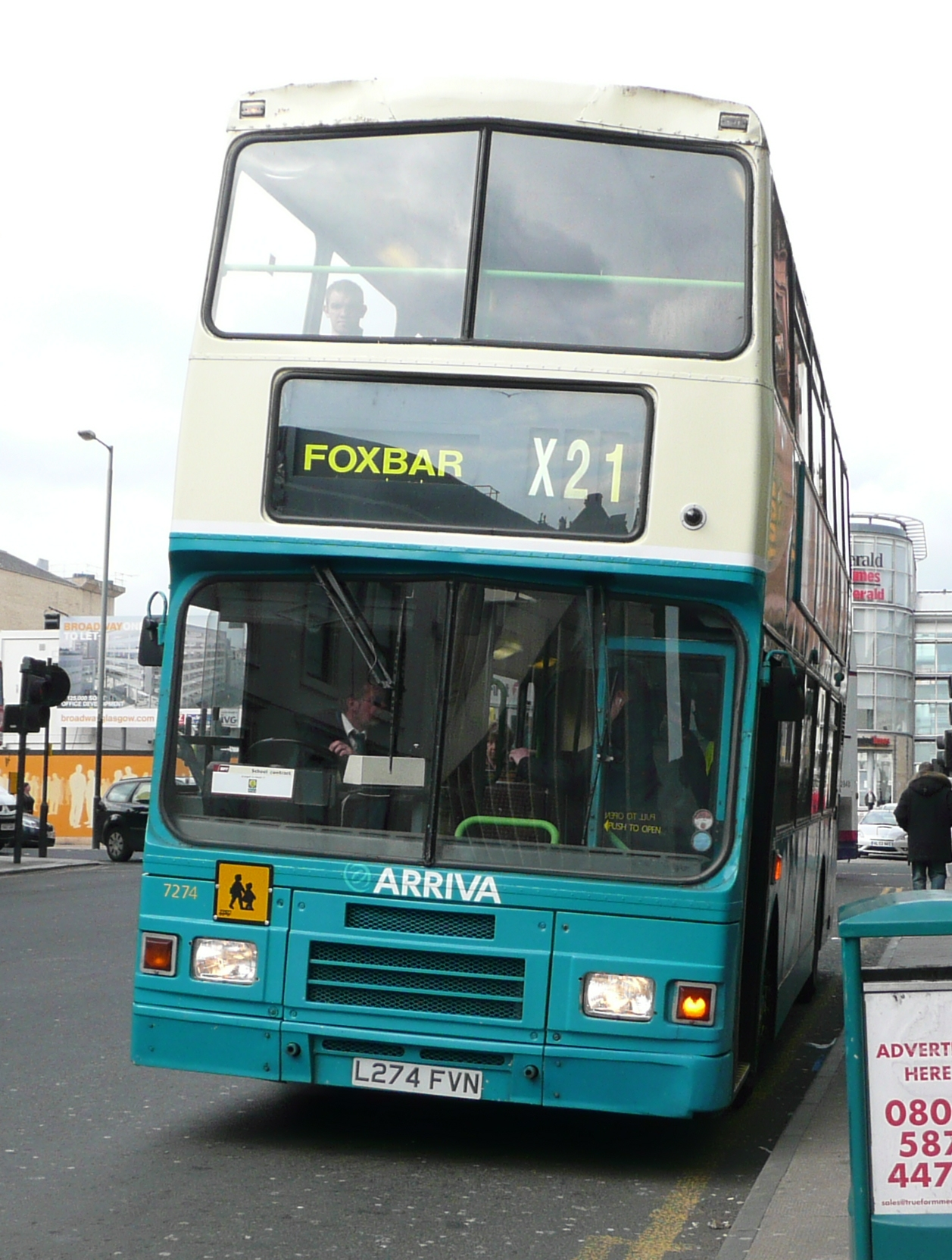 Arriva Scotland West bus 7274 (reg. L274 FVN), a 1993 Leyland Olympian double-decker with Alexander RH bodywork, pictured in Glasgow. It was new to United Automobile Services as their fleet no. 274.